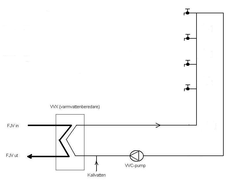 A simple schematic of hot water circulation in a building